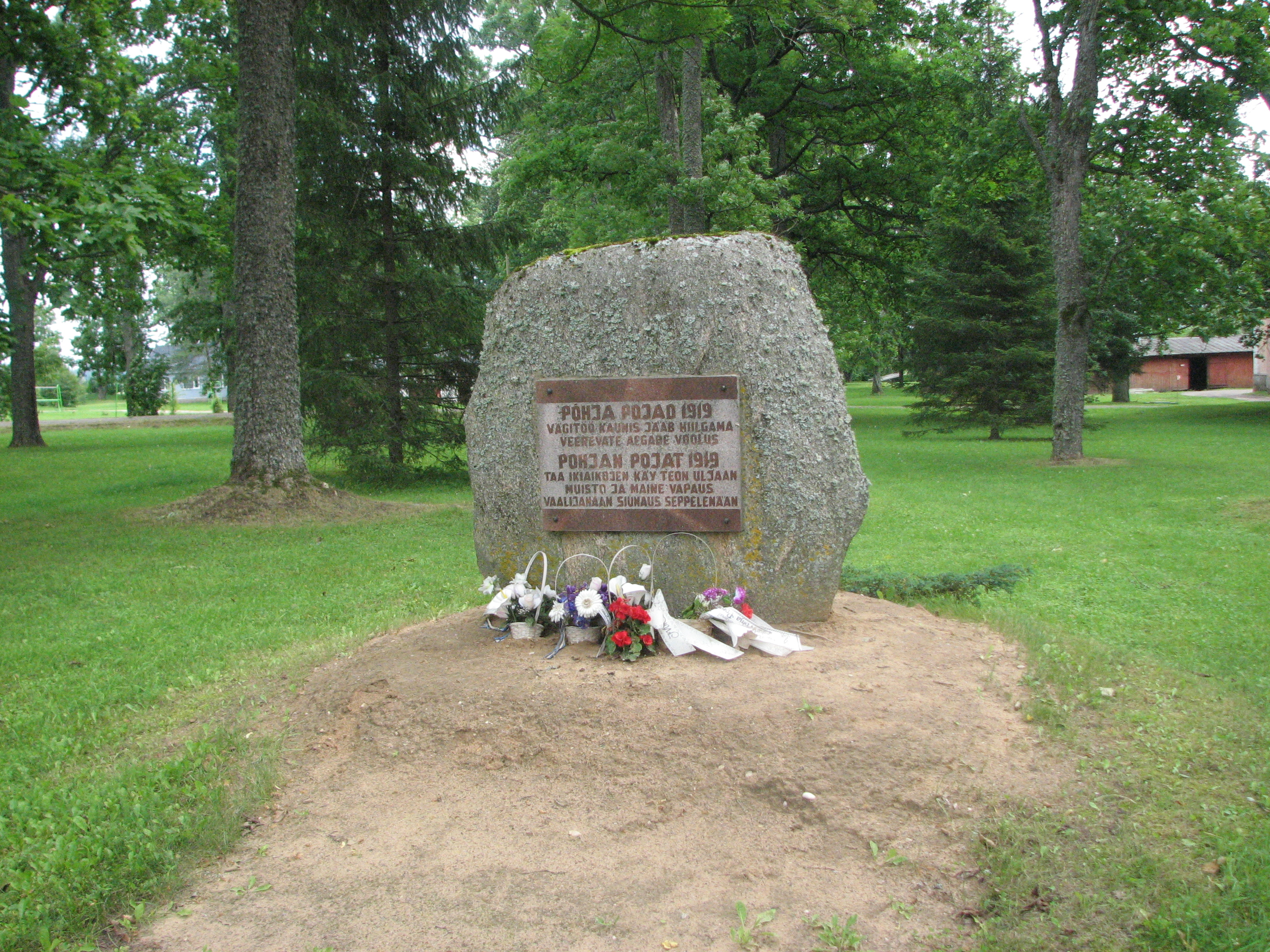 Battle of Paju, Estonia